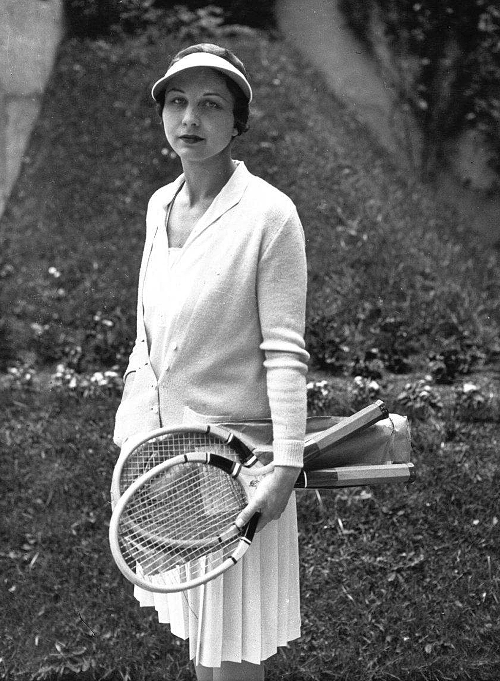 American tennis player Helen Wills Moody (1905-1998).